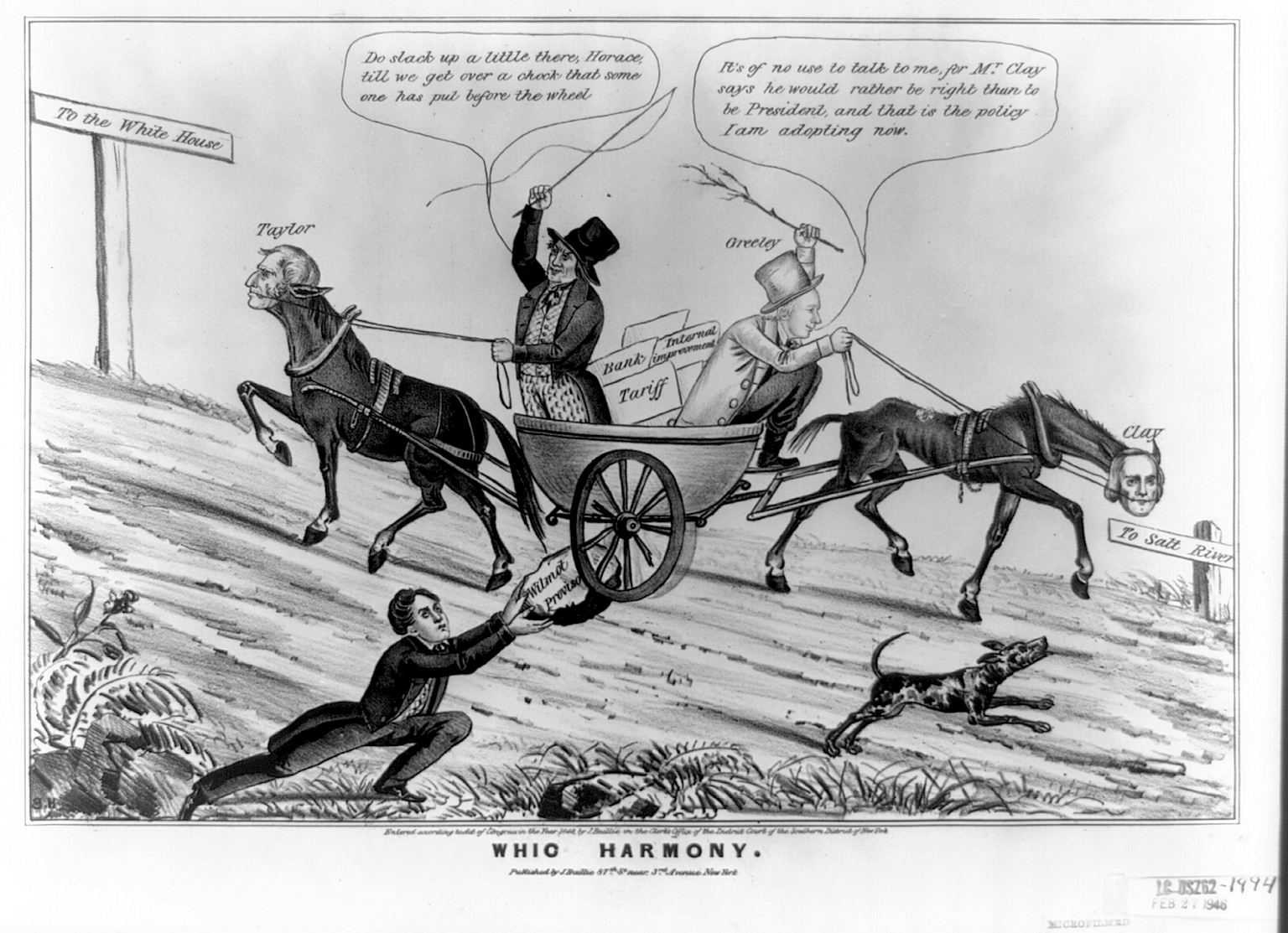 Whig harmony. A severe split within the Whig ranks, between partisans of Henry Clay and those of Zachary Taylor, preceded the party's convention in June 1848. Here Horace Greeley, one of Clay's most influential northern supporters, tries to drive the party wagon downhill toward "Salt River" (a contemporary idiom for political doom). At the same time, a Brother Jonathan or Uncle Sam figure steers in the opposite direction, toward the White House. Greeley whips his horse, a scrawny nag with the head of Henry Clay, with a switch or small branch; the uphill-bound horse has Taylor's head, and its driver wields a carriage whip. The cart is laden with papers marked "Tariff," "Bank," and "Internal Improvements," traditional catchwords of Whig politics. Greeley: "It's of no use to talk to me, for Mr. Clay says he would rather be right than to be President, and that is the policy I am adopting now." Brother Jonathan: "Do slack up a little there, Horace, till we get over a chock that some one has put before the wheel." The "chock" that the cart has run into is a rock marked "Wilmot Proviso," placed in the road by Congressman David Wilmot. The question of the validity of the proviso, an 1846 proposal to prohibit slavery in territories acquired during the Mexican War, became an important issue in the 1848 campaign, and a stumbling block to candidates like Taylor who courted Southern support. The proviso was never passed by the Senate.